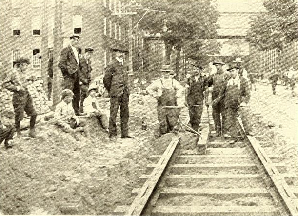 Holyoke Street Railway workers set up apparatus necessary for welding track joints with thermite, this project which ran for 18 days starting on August 8, 1904, marked the first time an American railway had used this now-standard method.